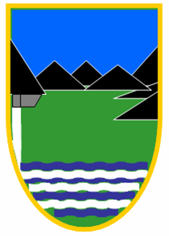 Coat of arms Plav Montenegro